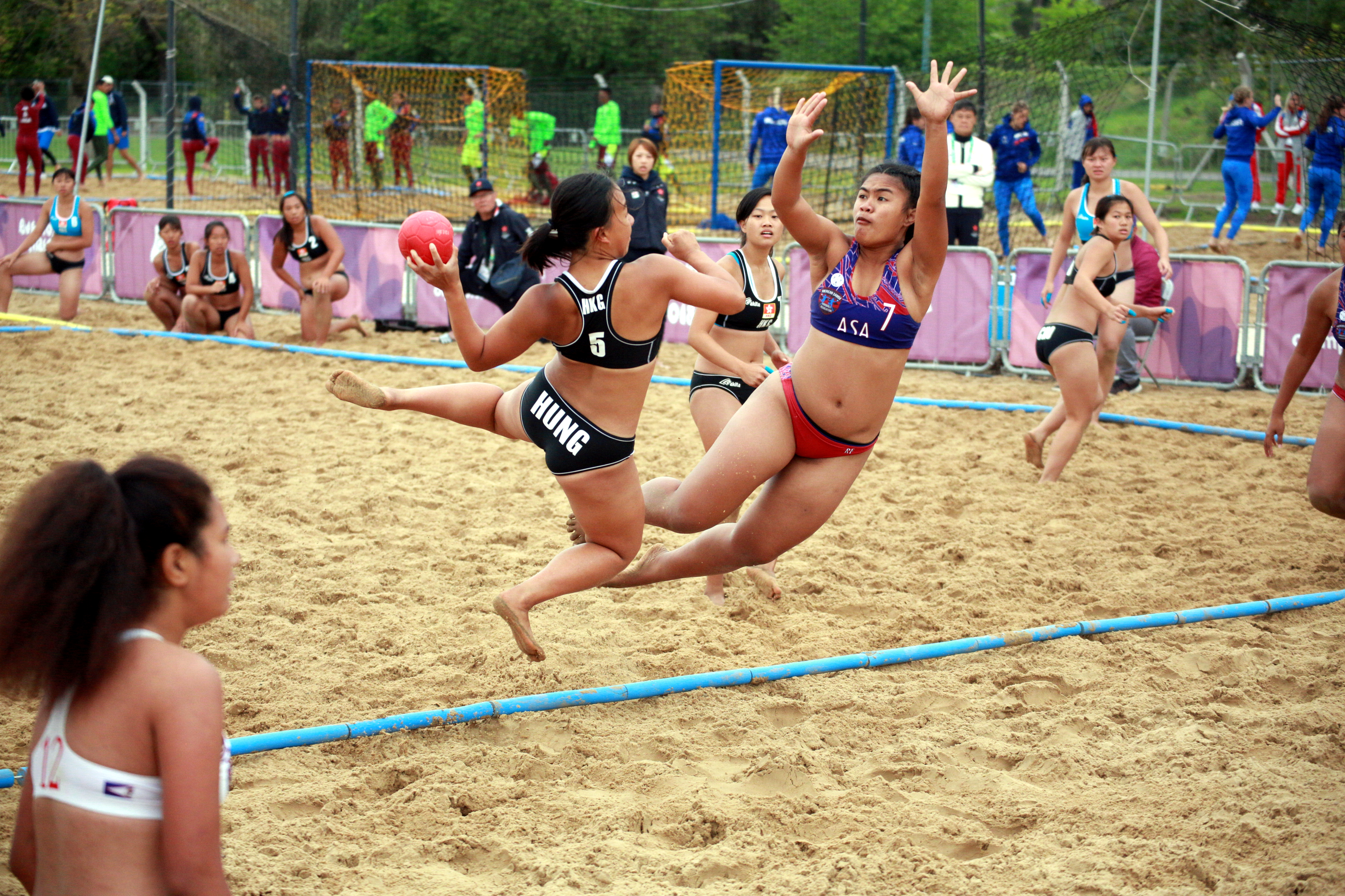 Beach handball at the 2018 Summer Youth Olympics at 12 October 2018 – Girls Consolation Round – American Samoa-Hong Kong 0:2